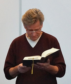 Danish actor Søren Spaning